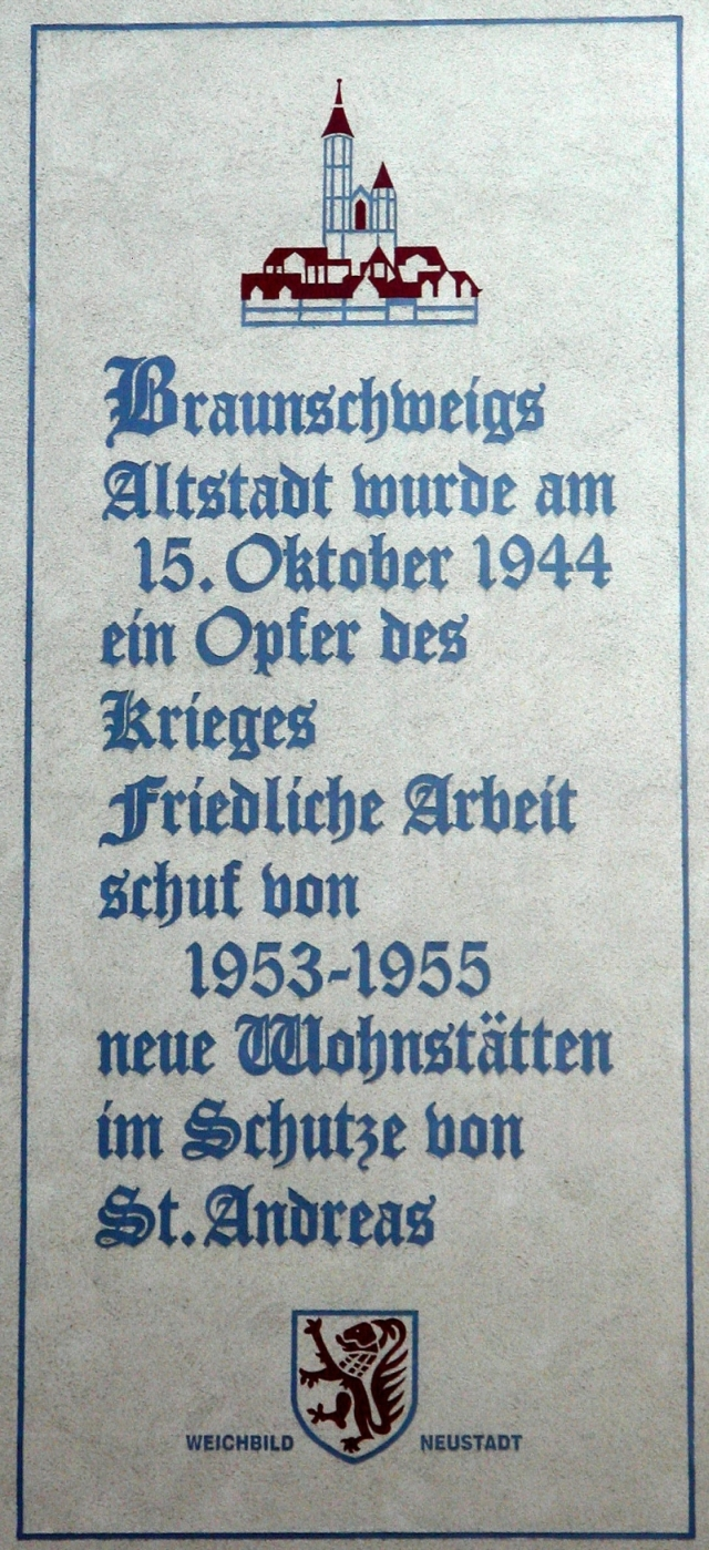 Brunswick, Germany: Writing on the wall of a building in the city centre, commemorating the large-scale destruction of the city through a Royal Air Force bombing raid on 15 October 1944 (picture taken in January 2006).